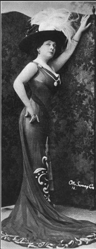 Laura Guerite, from a 1908 publication. A white woman standing, posed in a gown and a broad-brimmed hat with a large white plume.